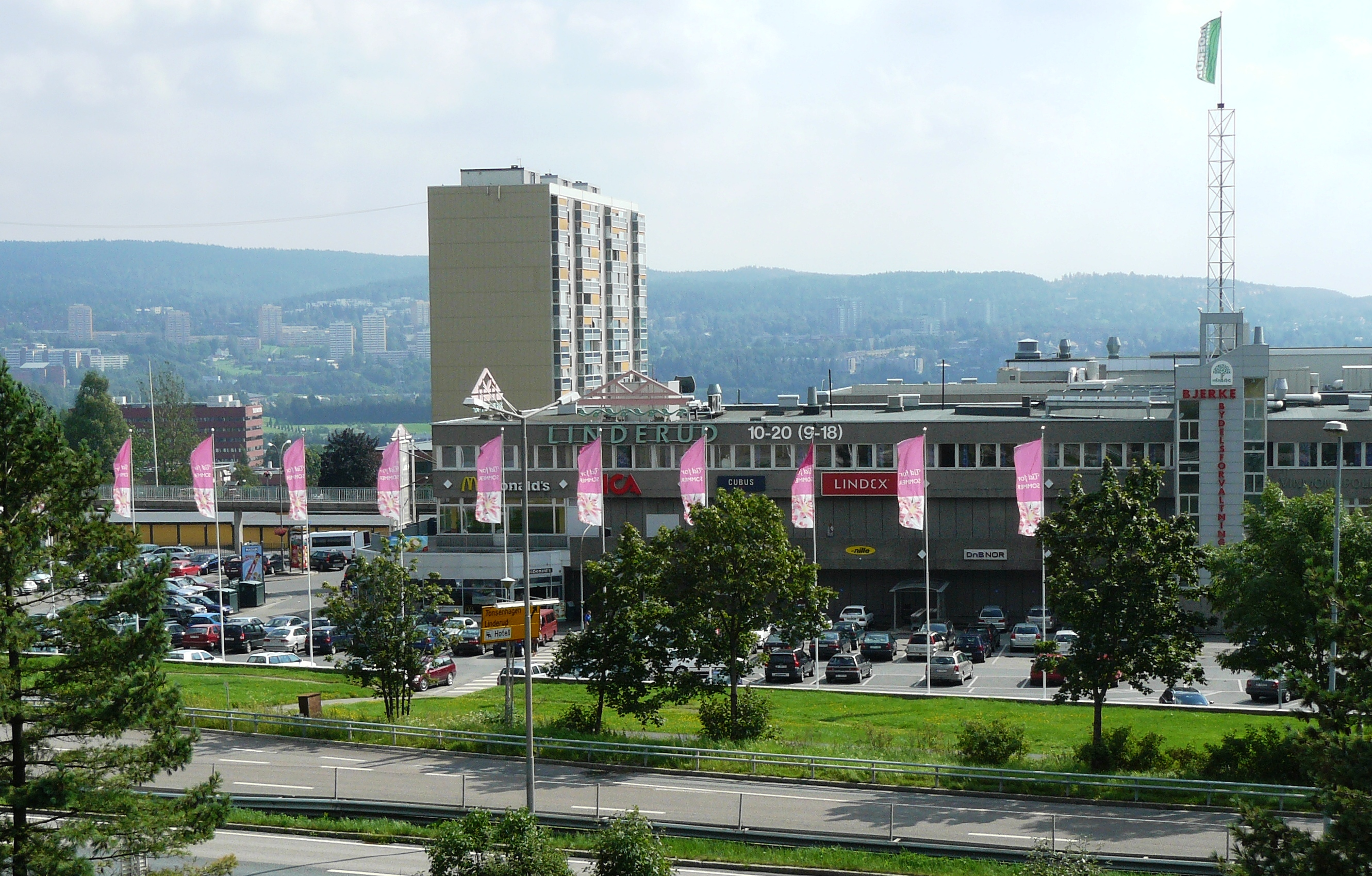 Linderud senter, Oslo - shoppingcentre and location for the borough administration